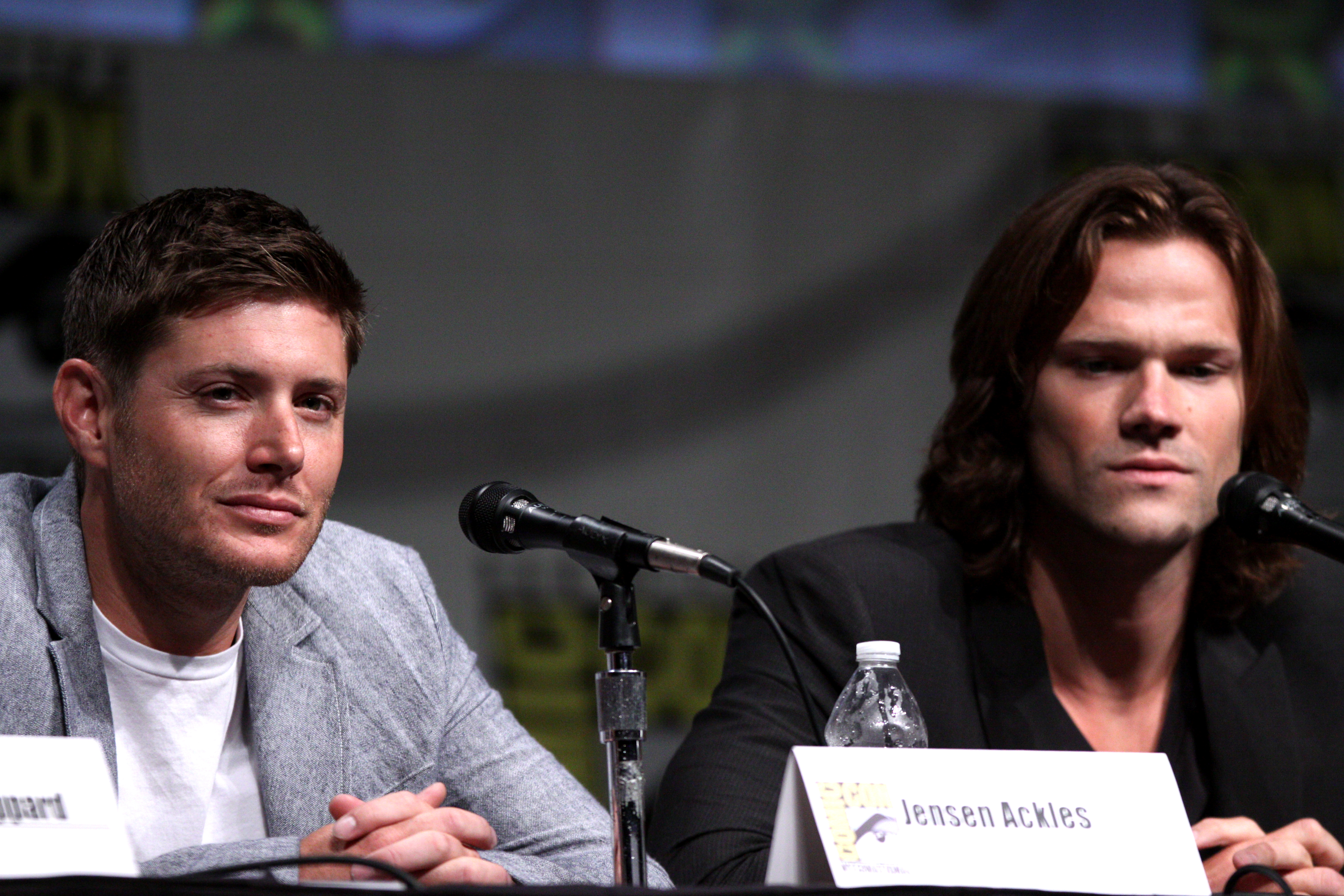 Jensen Ackles & Jared Padalecki speaking at the 2012 San Diego Comic-Con International in San Diego, California.